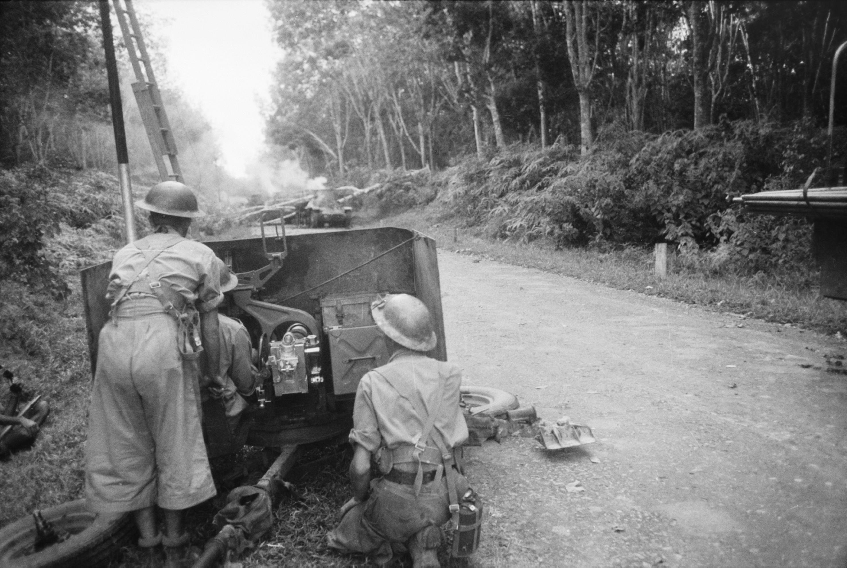 AWM: Malaya: Johore, Muar Area, Bakri . A two pounder Anti-Tank Gun of the 4th Anti-Tank Regiment, 8th Australian Division, AIF, directed by VX38874 Sergeant (Sgt) Charles James Parsons, of Moonee Ponds, Vic, in action at a road block at Bakri on the Muar-Parit Sulong Road. In the background is a destroyed Japanese Type 95 Ha-Go Medium Tank. The Anti-Tank Gun was known as the rear gun because of its position in the defence layout of the area. Sgt Parsons was later awarded the Distinguished Conduct Medal (DCM) for his and his crew's part in destroying six of the nine Japanese tanks during this engagement. This photograph also appears as negative no 068592. IWM: An Australian 2-pdr anti-tank gun of the 2/4th Australian Anti-Tank Regiment, commanded by Sgt Charles Parsons (left), firing on Japanese Type 95 Ha-Go tanks as they try to pass trees felled across the Muar - Parit Sulong road, near Bakri in Malaya, 18 January 1942. Nine tanks were destroyed by two 2-pdrs in this engagement, part of the battle of Muar, which took place around the Gemensah bridge and the Muar River in Johore. It was the last major engagement of the campaign.